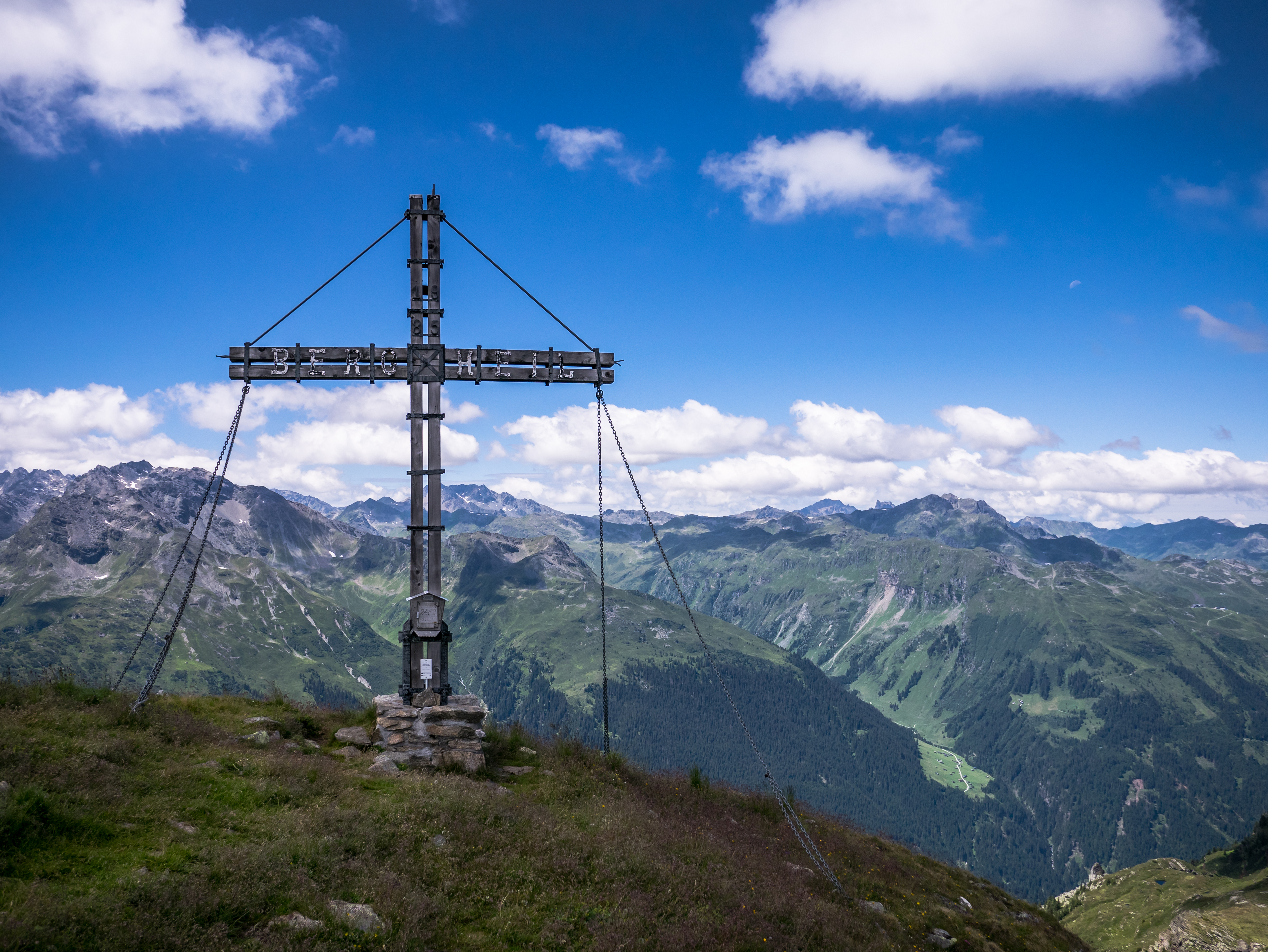 Summit of Versalspitze, Vorarlberg, Austria